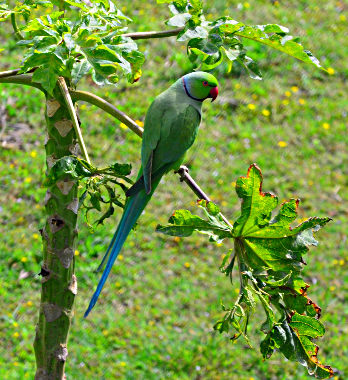 Rose-ringed Parakeet